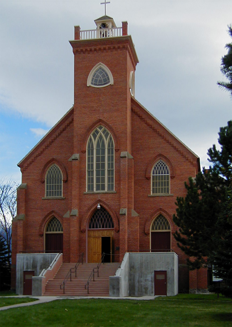 View of St. Ignatius Mission, St. Ignatius, Montana, USA.